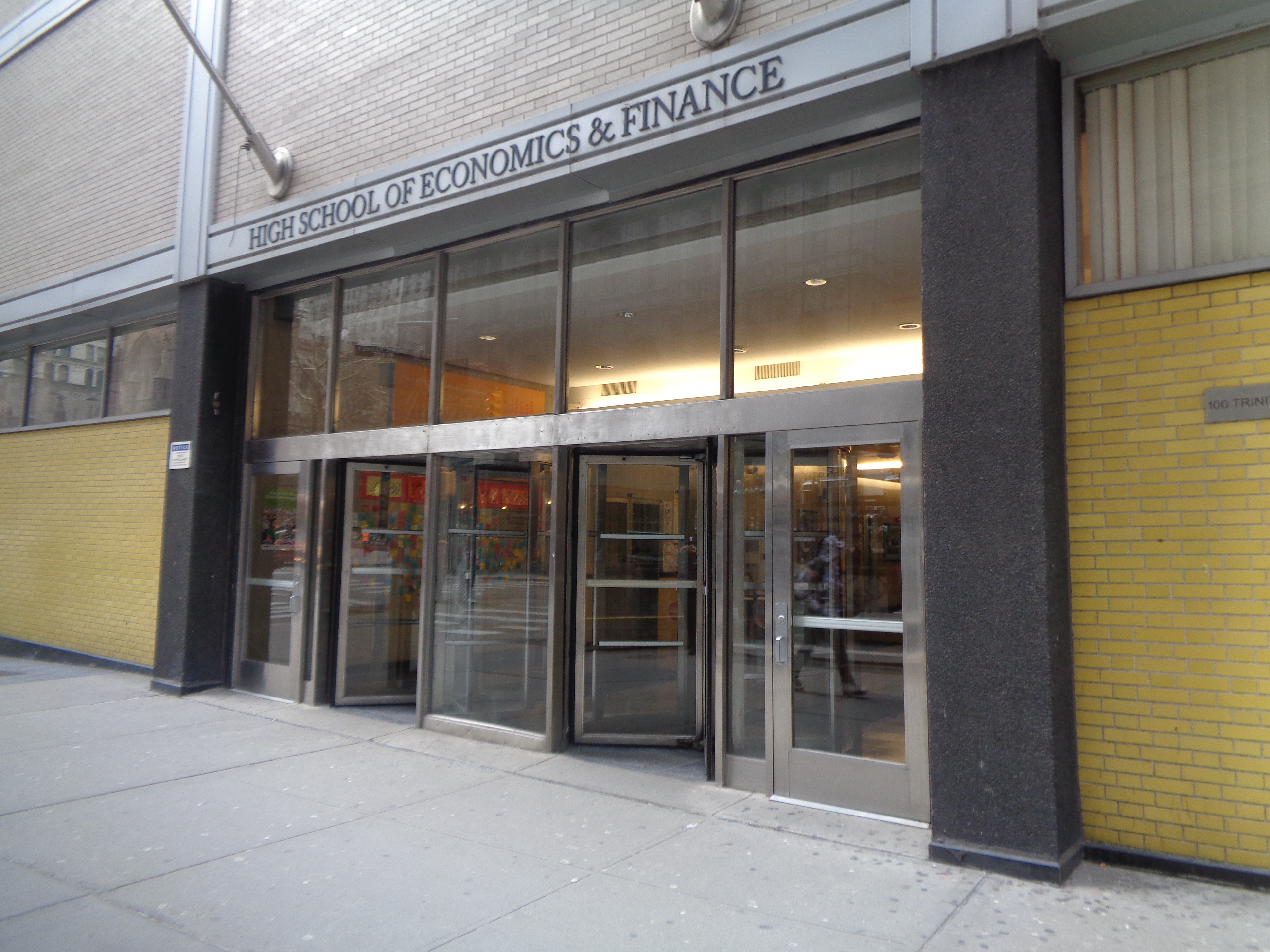 The entrance to the High School of Economics and Finance, at Trinity Place and Cedar Street (100 Trinity Place) in the Financial District, Manhattan.